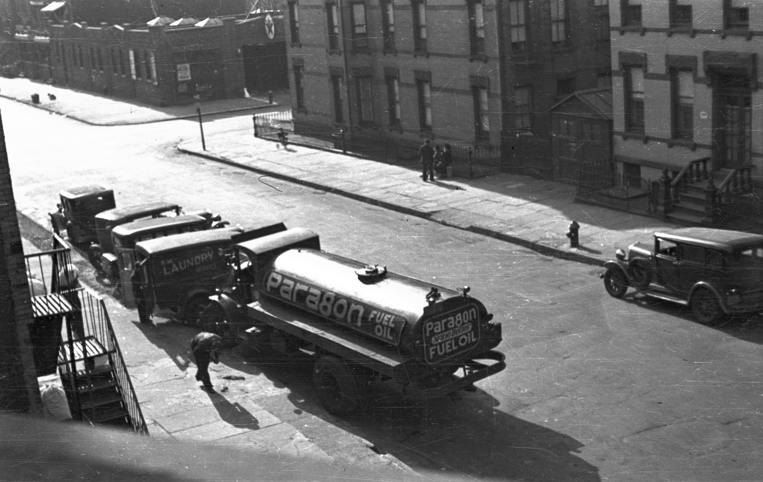 A Paragon Fuel Oil truck loads fuel on a Brooklyn street in the 1930s.